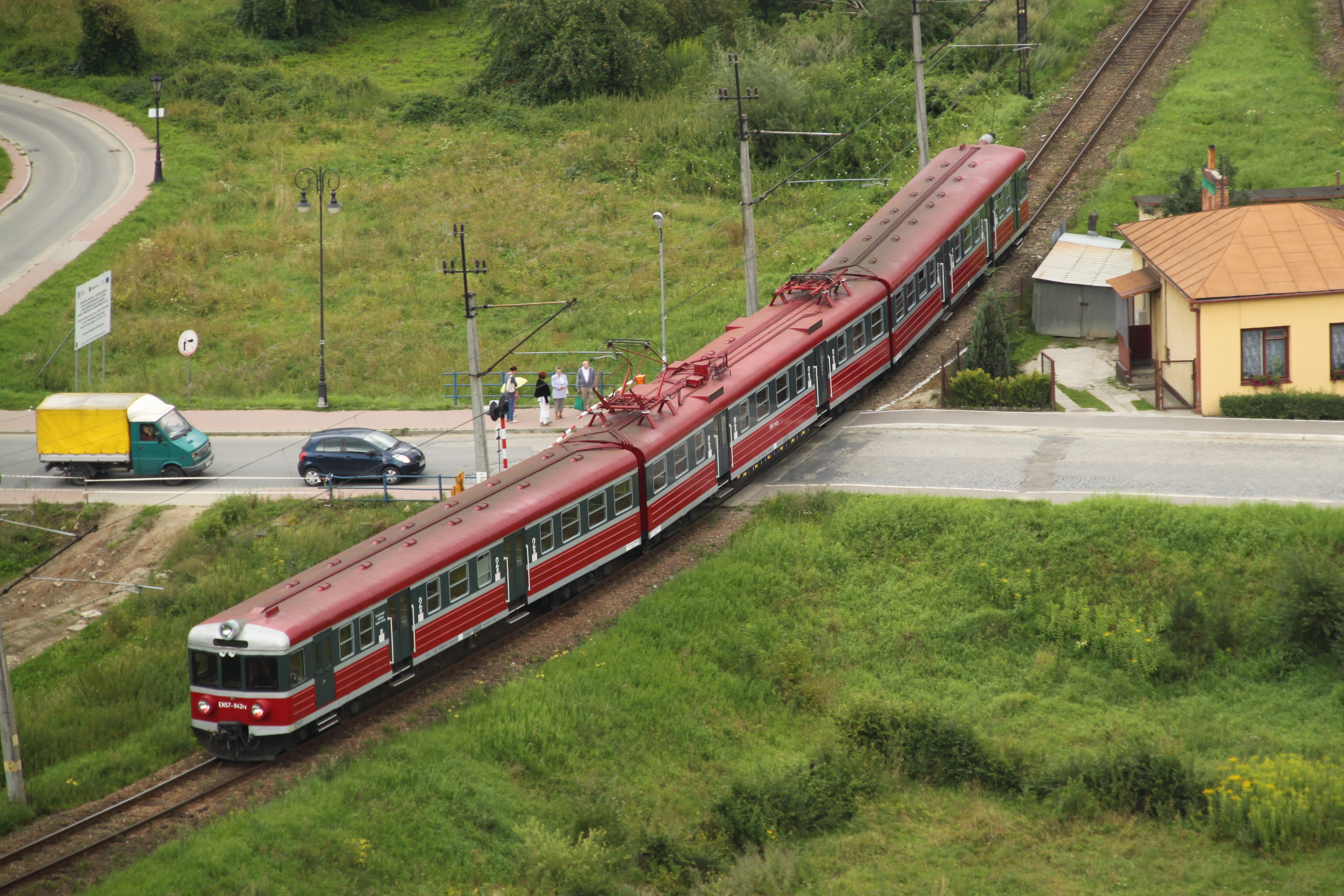 EN57-942 in Muszyna, Poland.